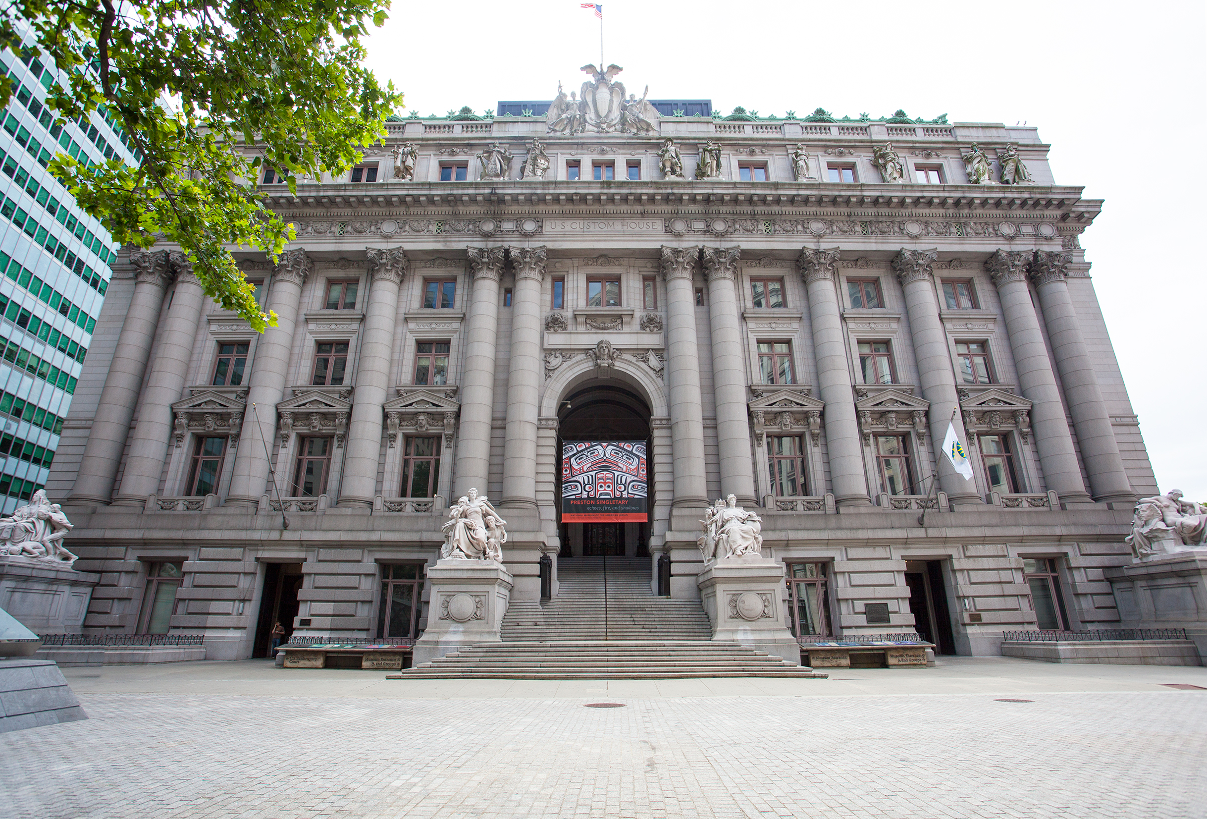 ALEXANDER HAMILTON CUSTOM HOUSE originally U.S. Custom House New York City